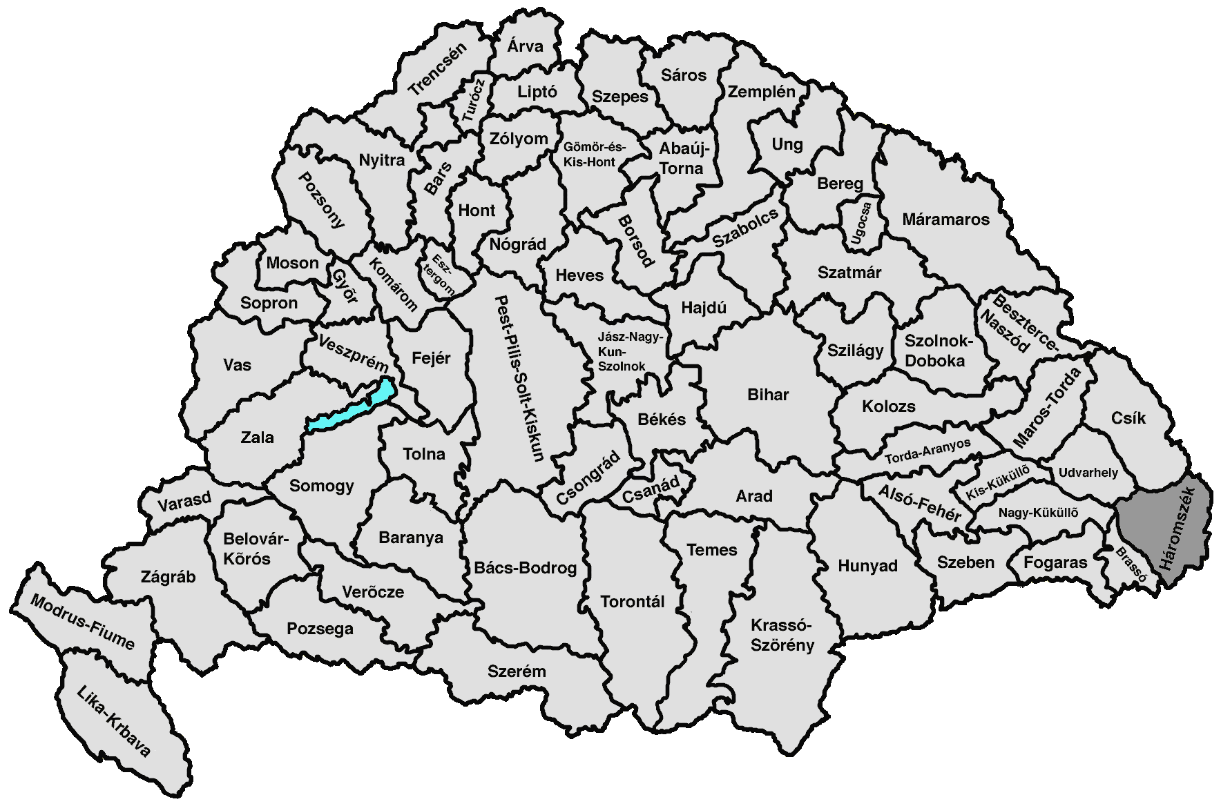 own edit of Image:Zala.png